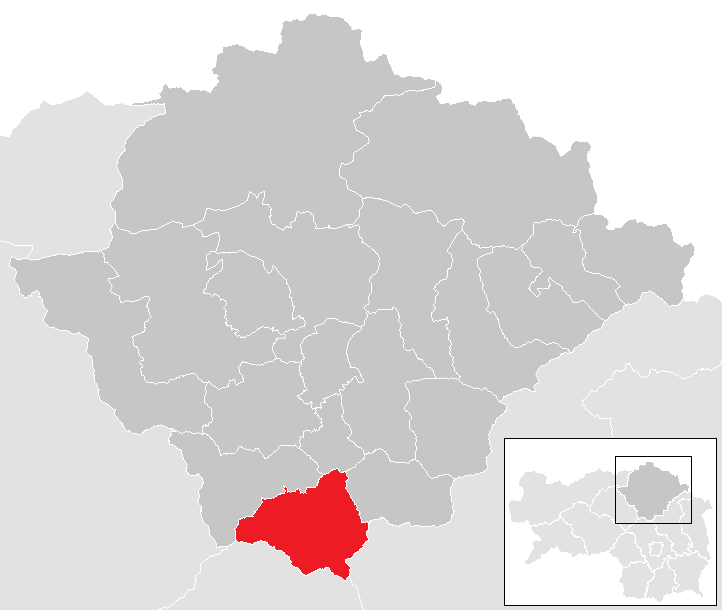 district Bruck-Mürzzuschlag